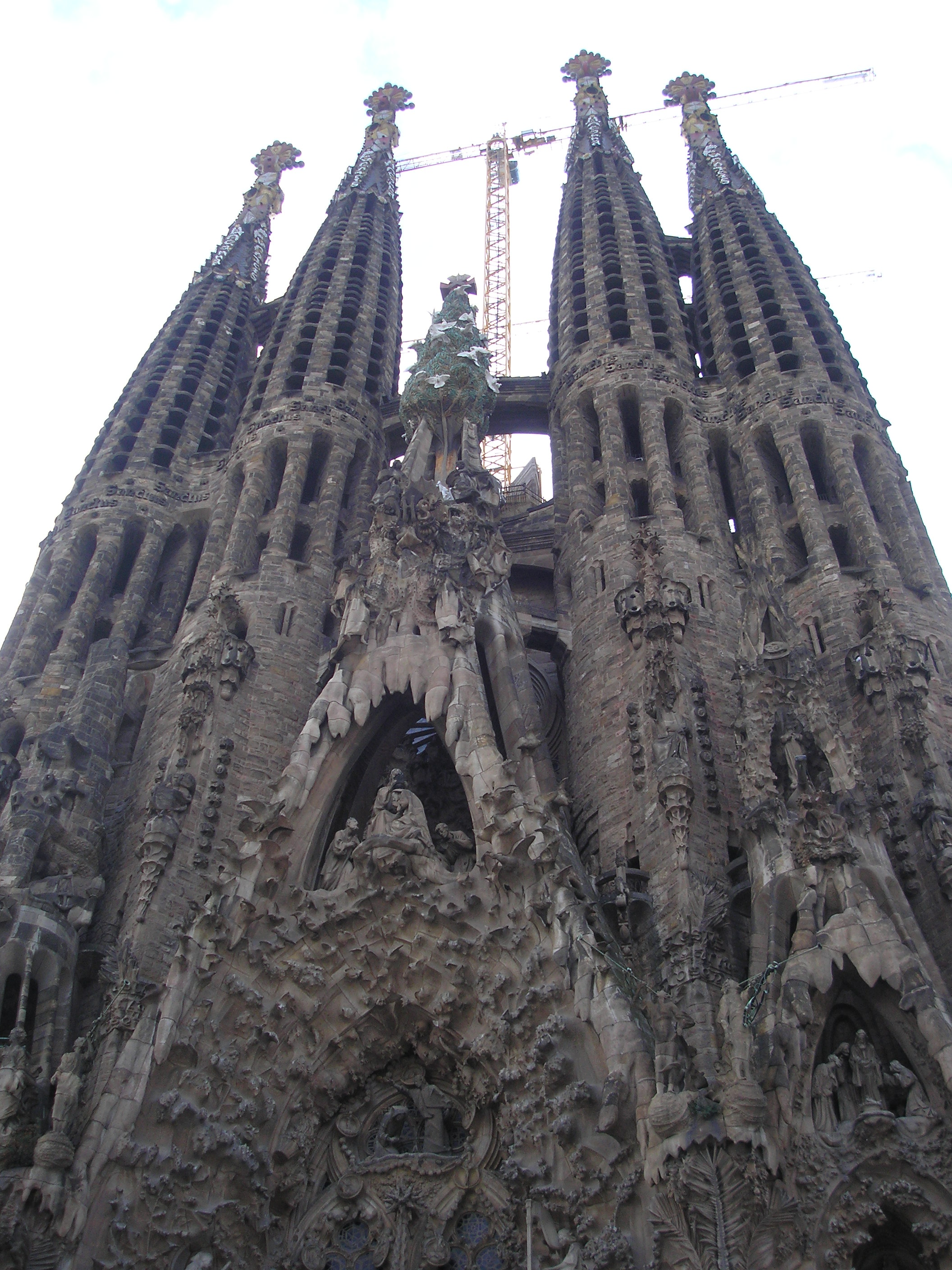 Gaudi's La Sagrada Famillia cathedral in Barcelona, Spain. The Nativity Facade